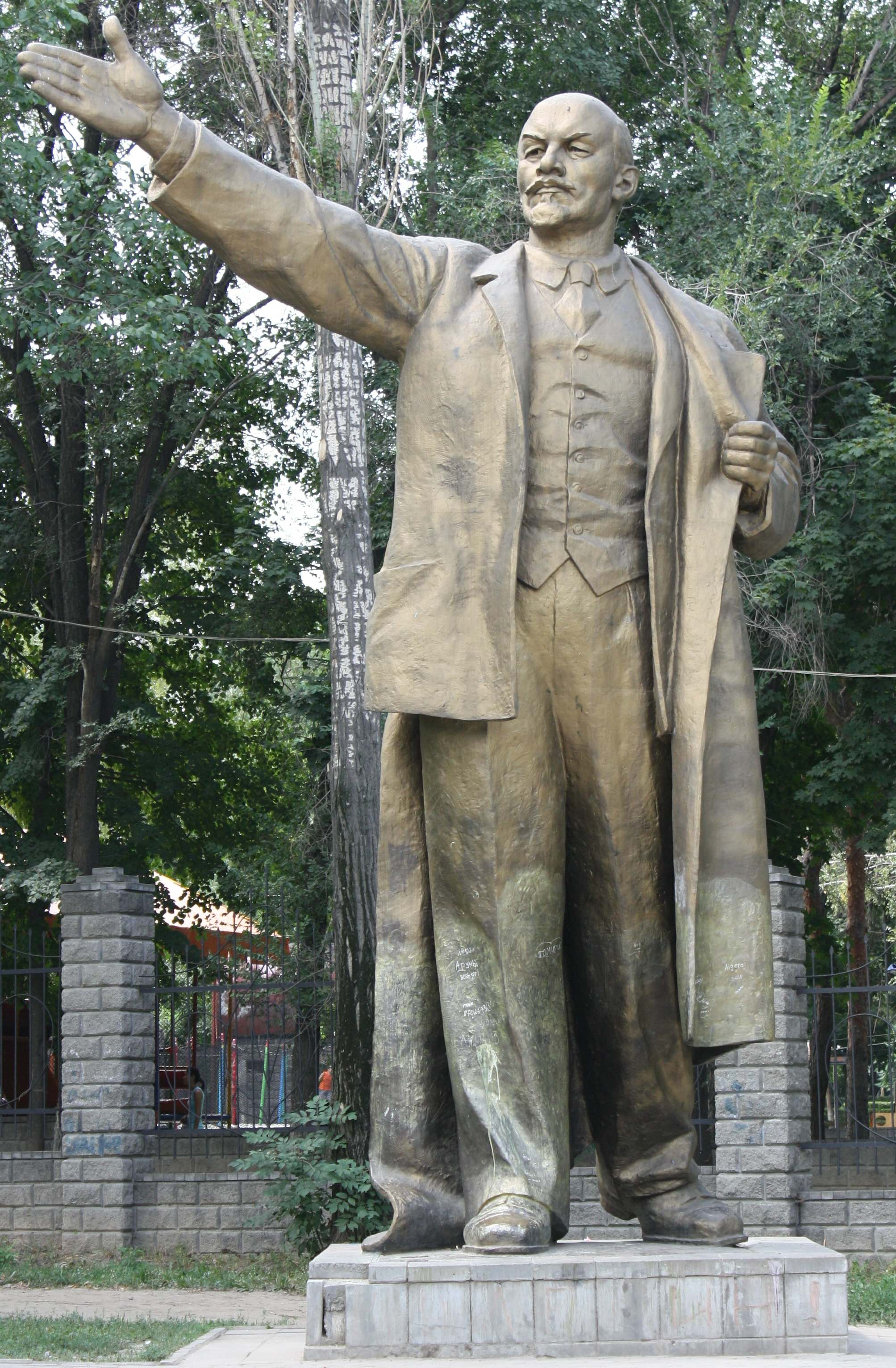 The monument for Vladimir Lenin in Almaty, Kazakhstan. Made during the Soviet time